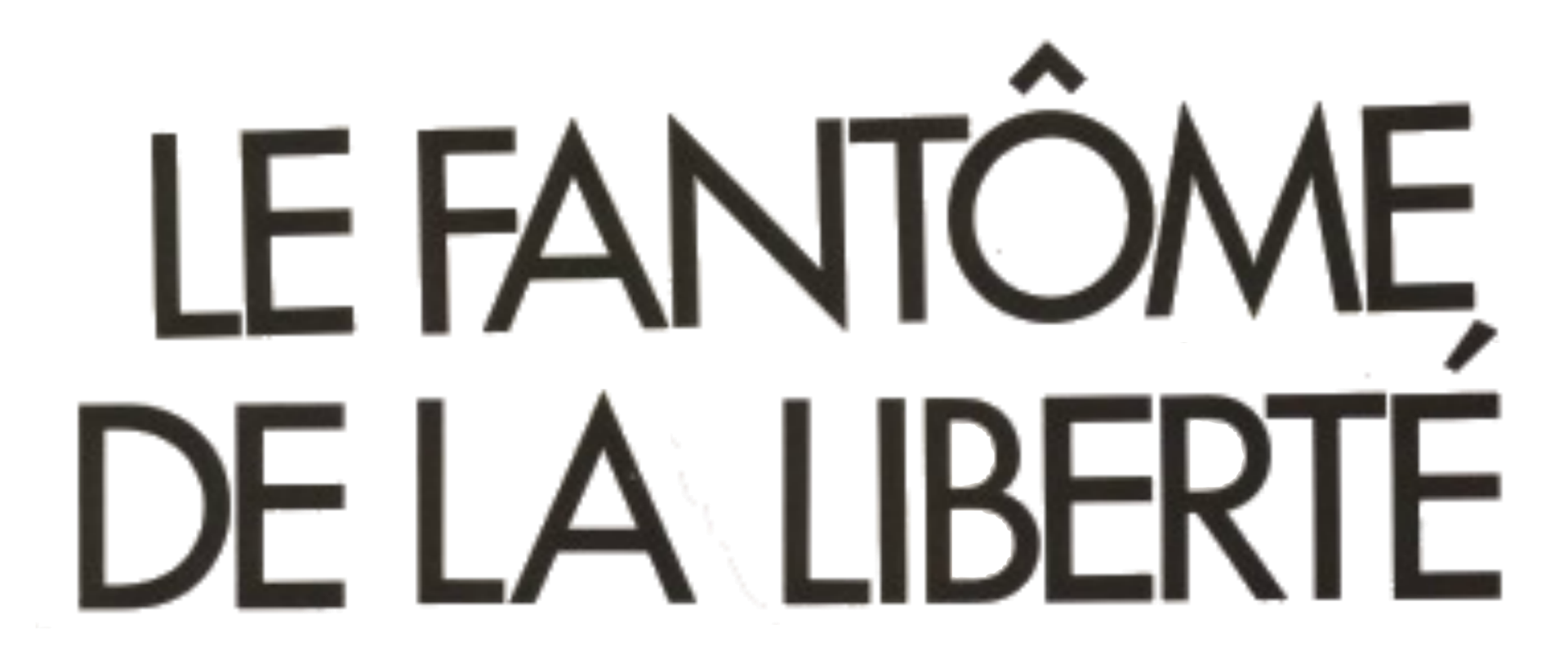 "Le fantôme de la liberté" (1974) movie horizontal logo (black letters).